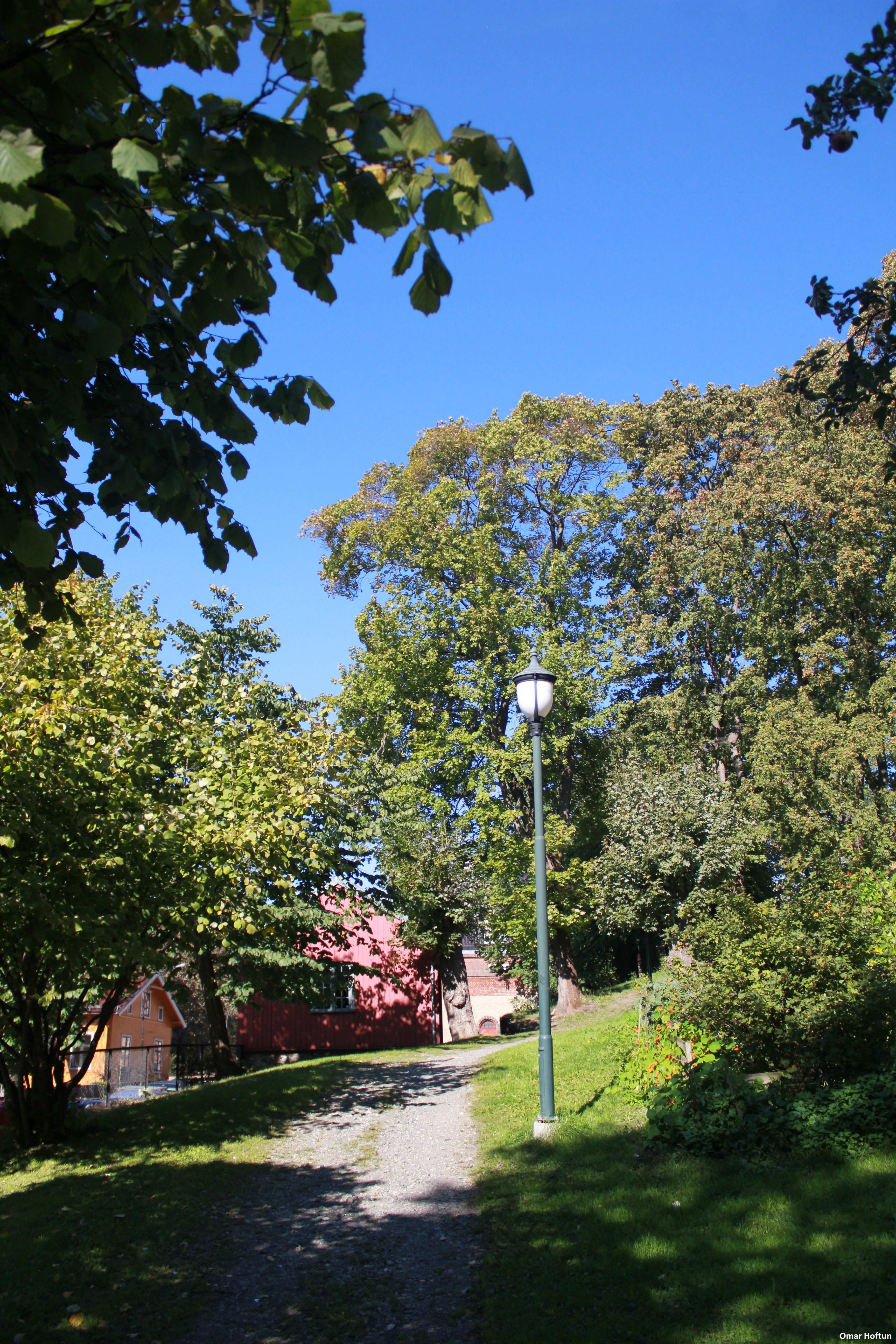 The track from Briskebyveien to the bowling building in Langgaardsløkken park.